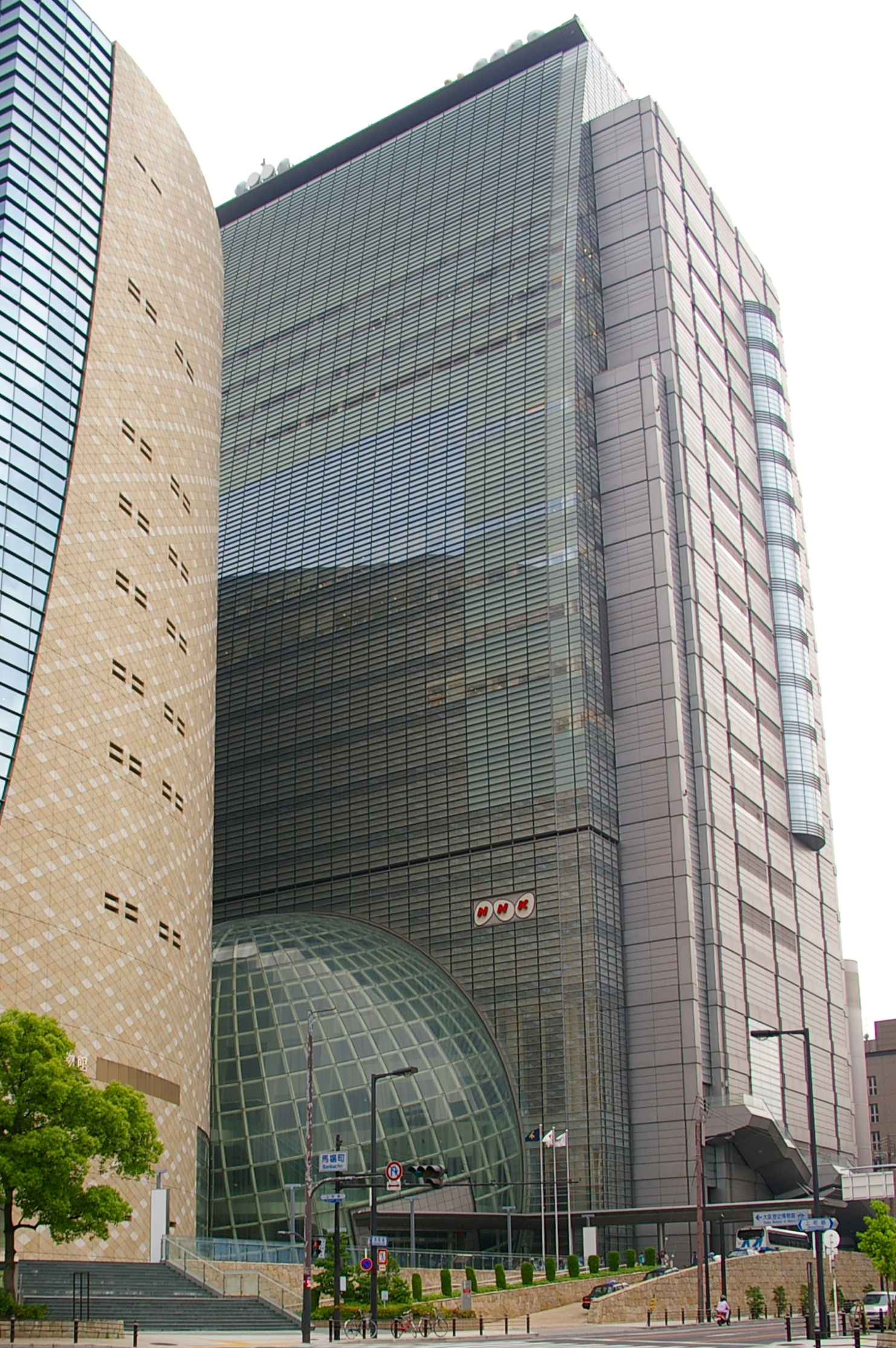 Photograph of NHK Osaka Broadcasting Station Building in Chuo-ku, Osaka, Osaka Prefecture, Japan.